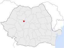 Location of Ocna Mureș in Romania.